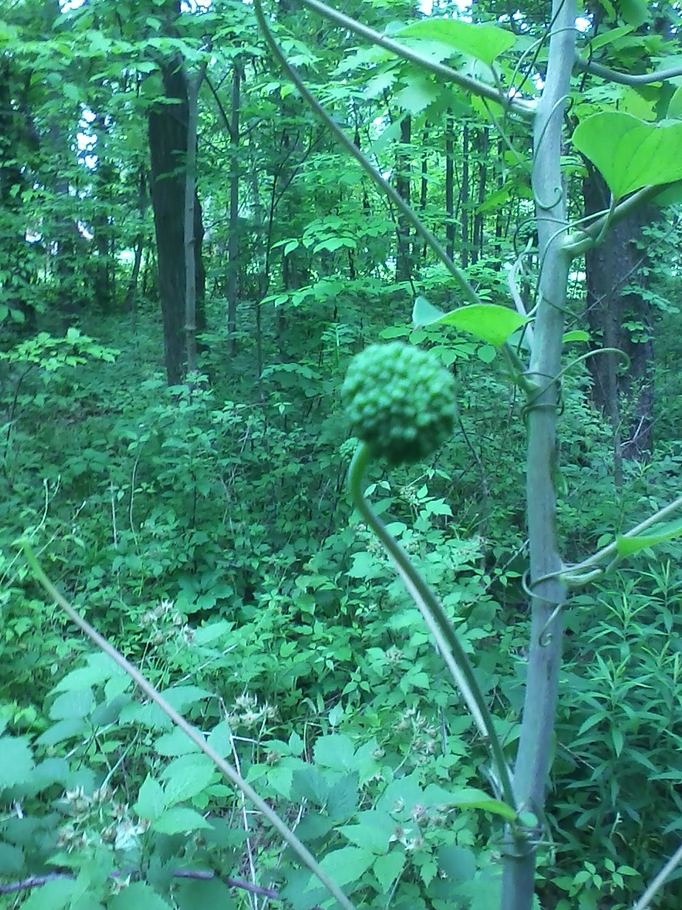 smilax flower starts out looking like a brocolli floret on a thin stem.